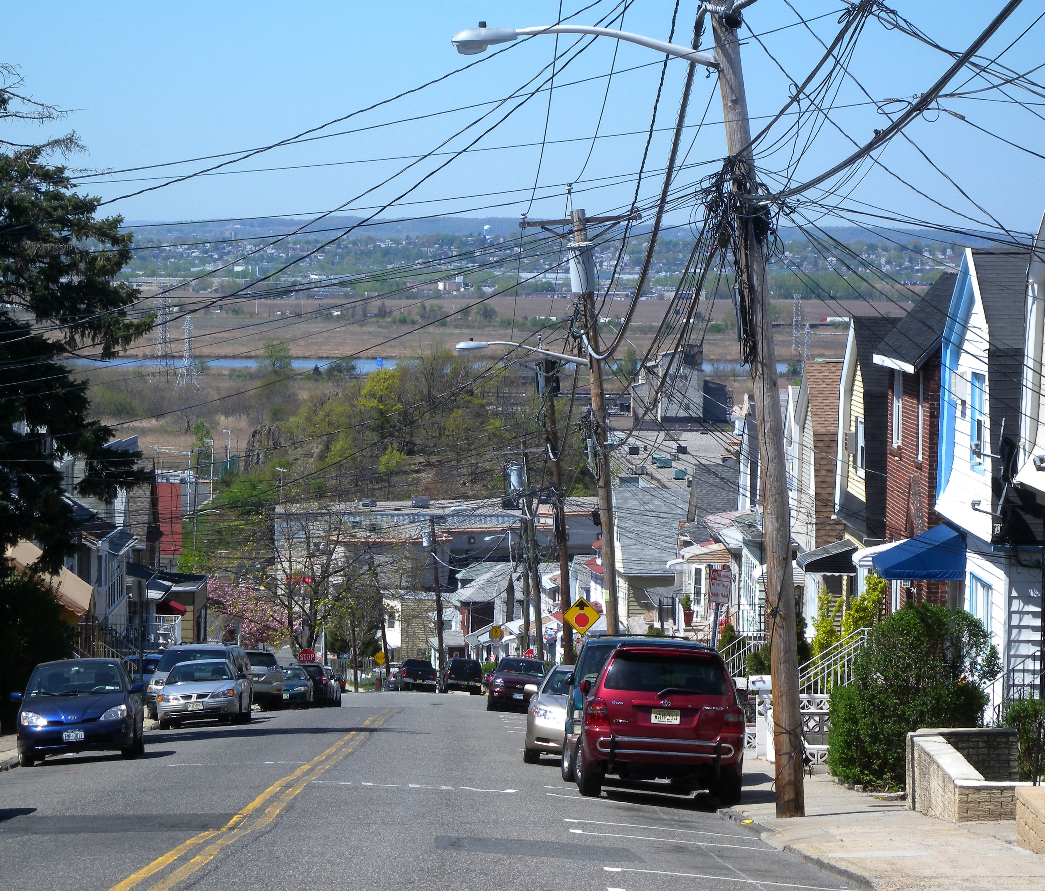 Looking northwest down a steep residental street in the lower 80s on a sunny midday.